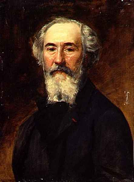 Portrait of Emmanuel Lansyer (1835-1893), painter